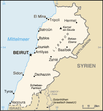 Map of Lebanon. The map with German labels is based on a map of the The World Factbook